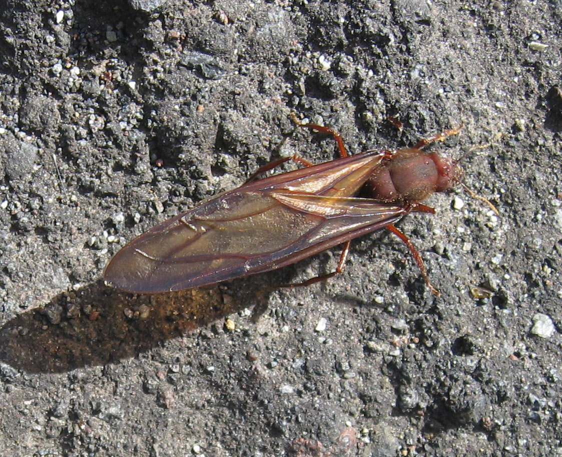 Atta, leaf-cutting ants, It's edible, ID Confidence: 85